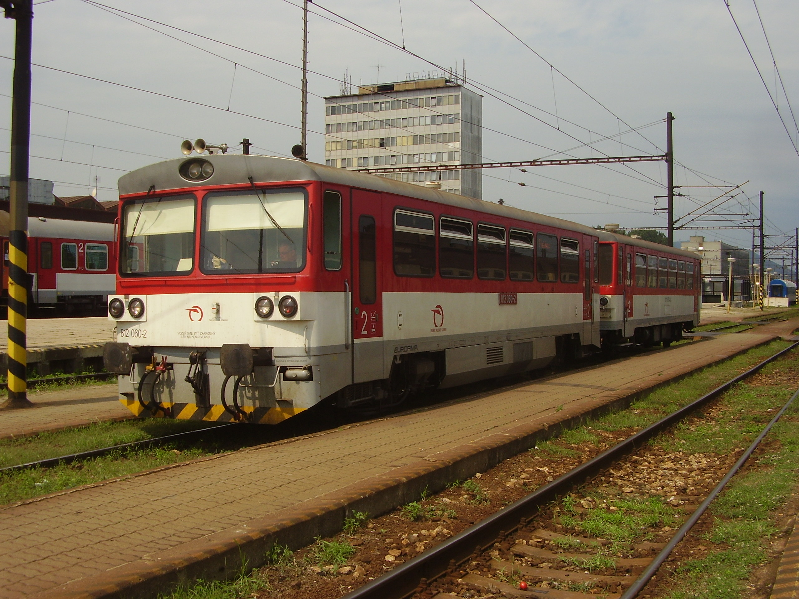 Diesel unit 812 ZSSK in station Košice